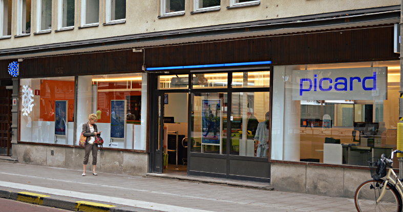 A Picard shop at Karlavägen in Stockholm. The picture was taken in June 2013.